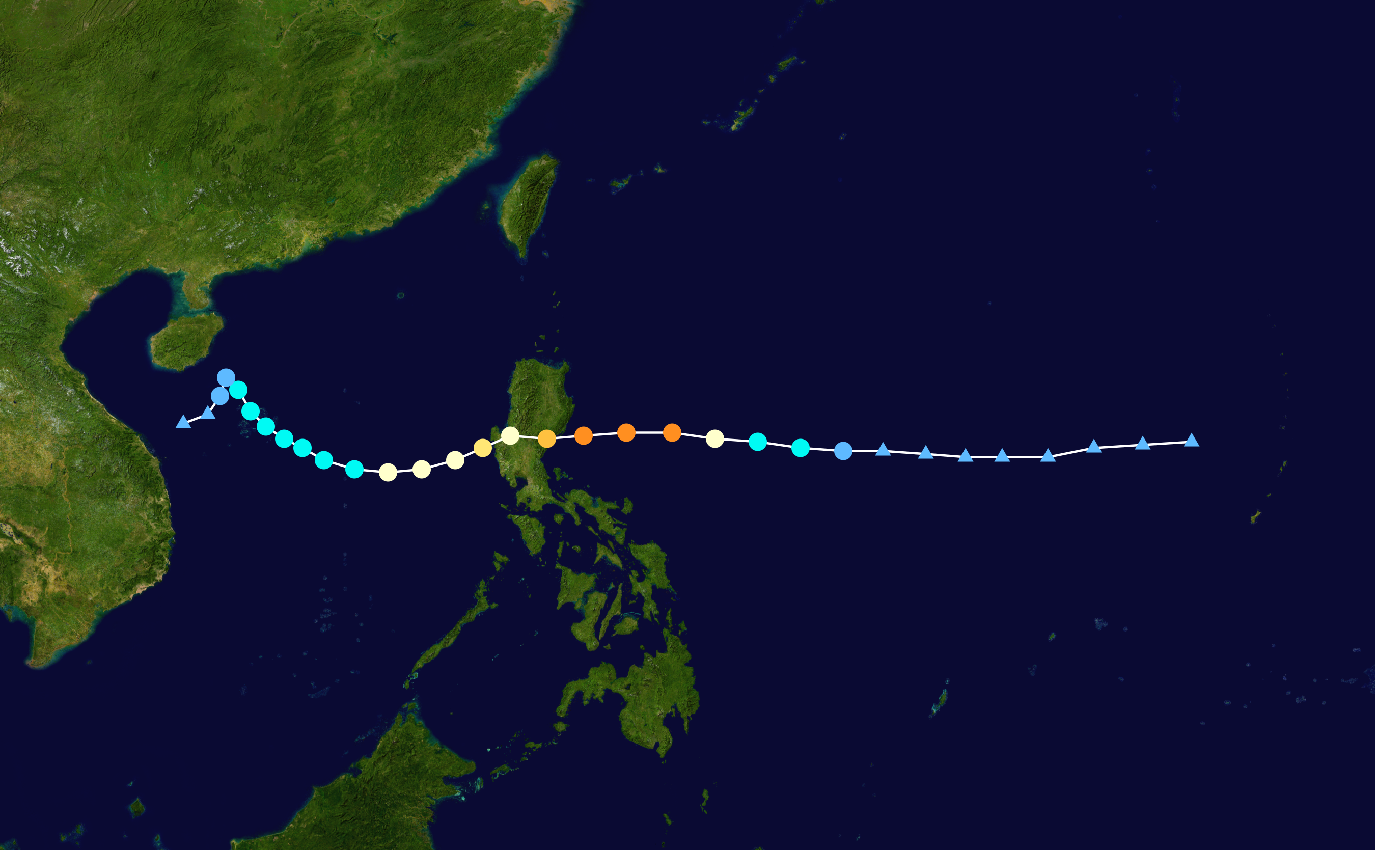 Typhoon Chebi (2006) track. Uses the color scheme from the Saffir-Simpson Hurricane Scale.